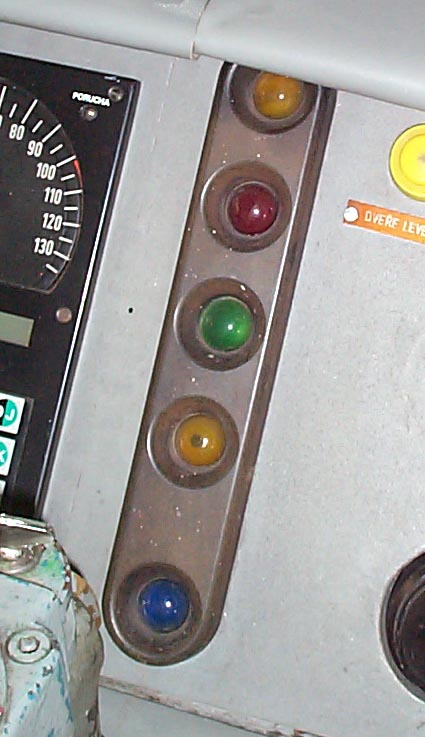 display of cab signalling LS II used in Czechoslovakia